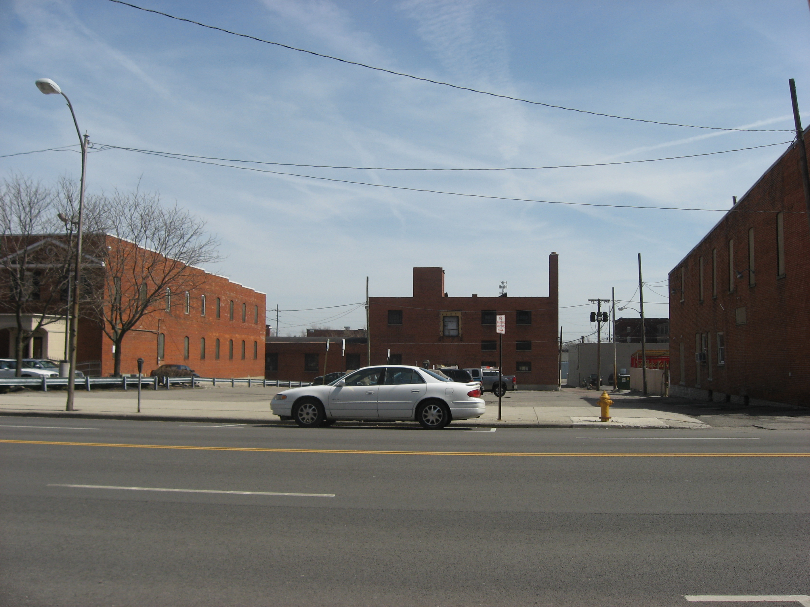 Site of the Renz Block at 320 N. Main Street in Lima, Ohio, United States. Built in 1900, the building is listed on the National Register of Historic Places, even though it has been destroyed.